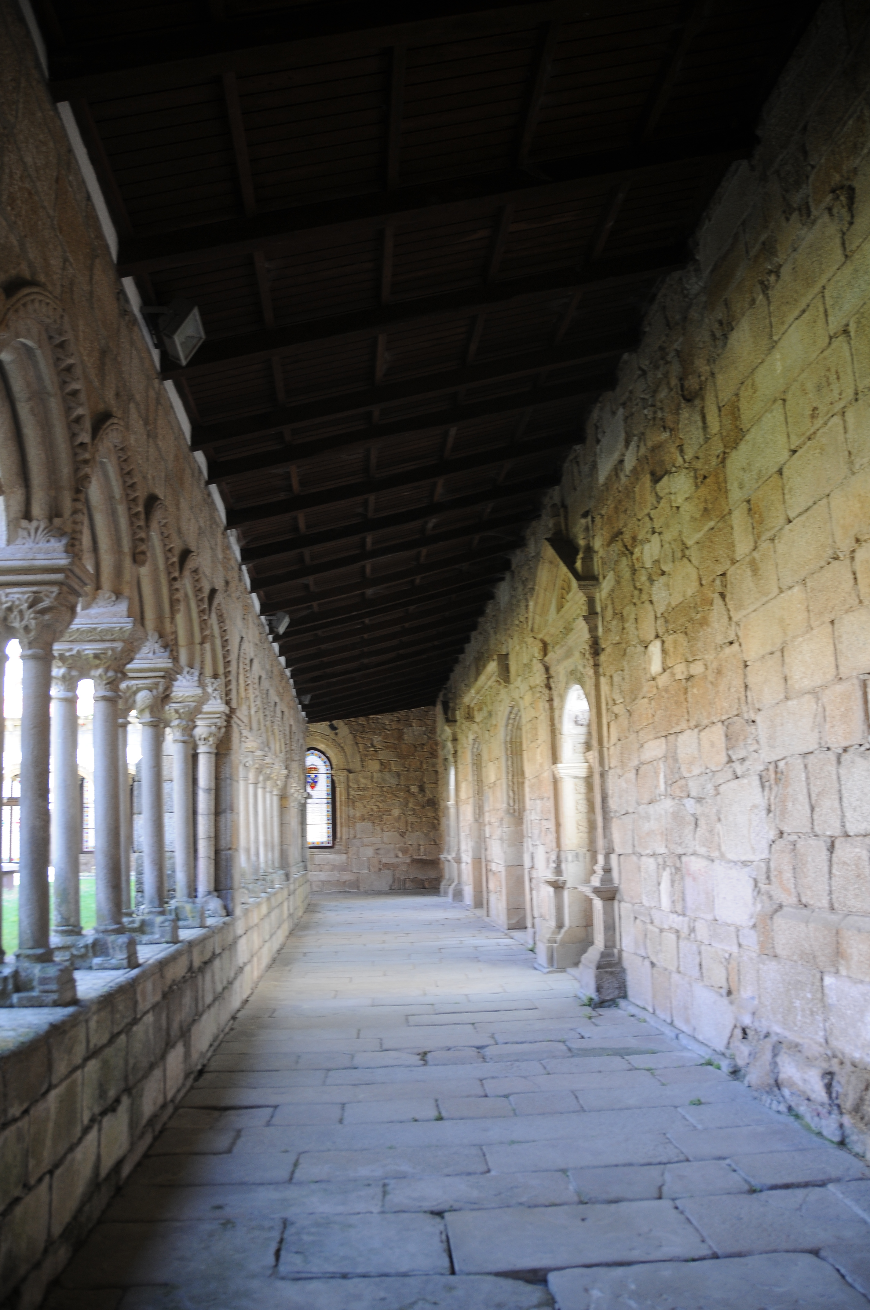 Cloisters in Convent of San Francisco, Ourense, Spain.